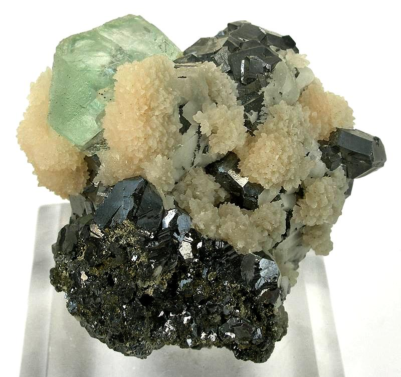 Calcite, Fluorite, Galena Locality: Gibraltar Mine (incl. "Cave of Swords"), Naica, Municipio de Saucillo, Chihuahua, Mexico (Locality at ) Size: small cabinet, 6.7 x 6.0 x 4.5 cm Fluorite with Galena and Calcite Great aesthetics highlight this combination specimen with a matrix of galena. Aesthetically perched high on the galena is a single, glassy and gemmy, cuboctahedron of emerald-green fluorite, measuring 3.5 cm across. Wreathlike clusters of drusy, ivory-colored calcite surround the fluorite and accent it. The balance of the fluorite with the galenas also adds to make this a wonderful combination specimen for the locale, with most of its classic species on one piece. Ex. Dr. Miguel Romero Collection.